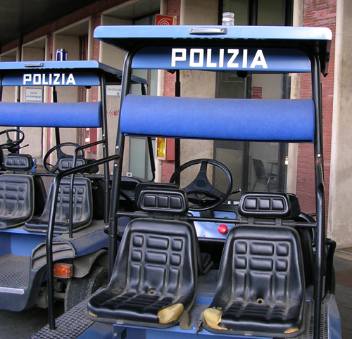 I took this photo myself in Venice Railway Station.